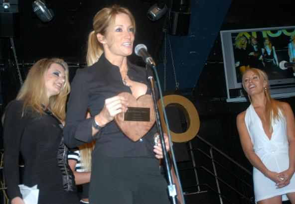 Jessica Drake XRCO Award 2005